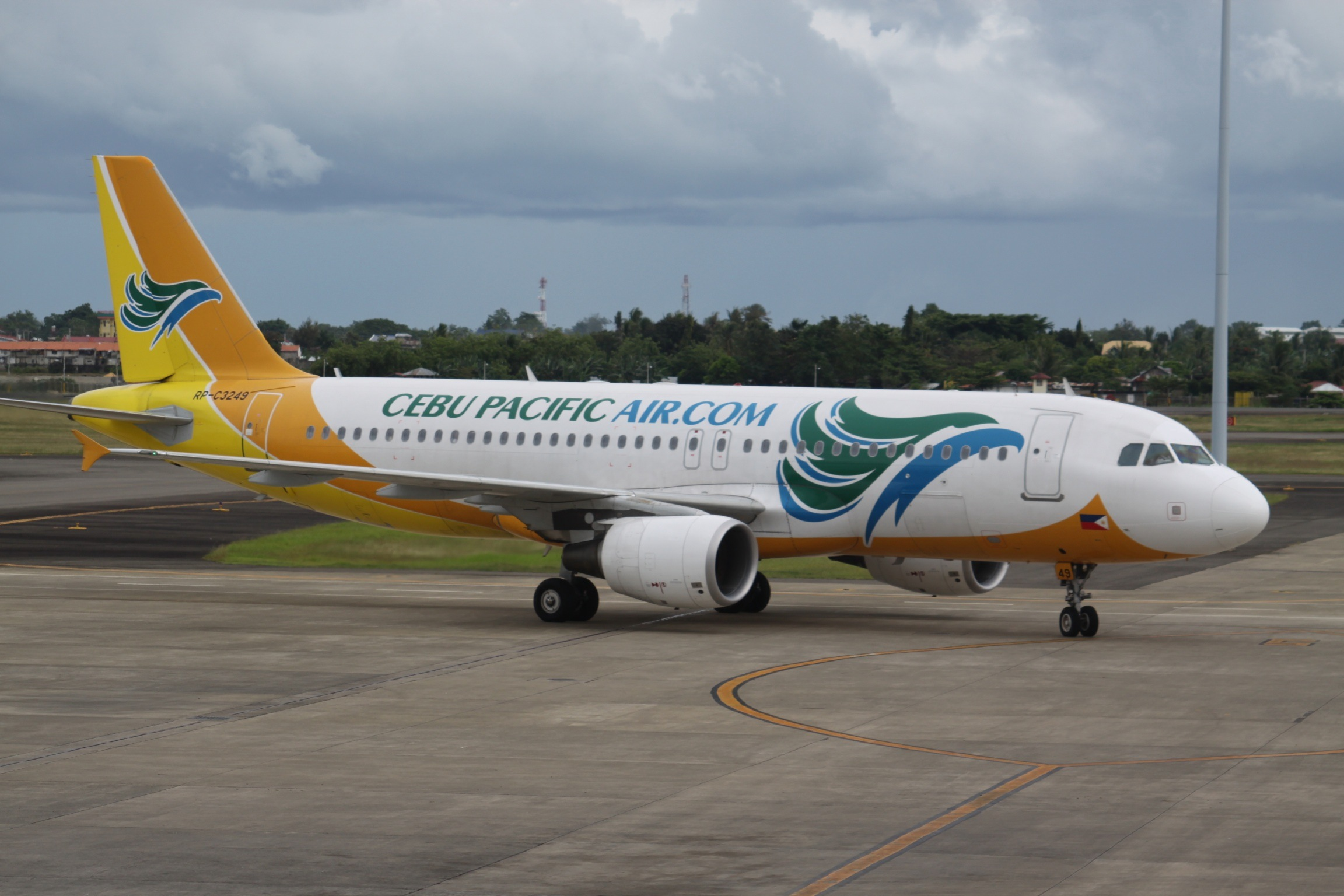 At Mactan-Cebu International Airport